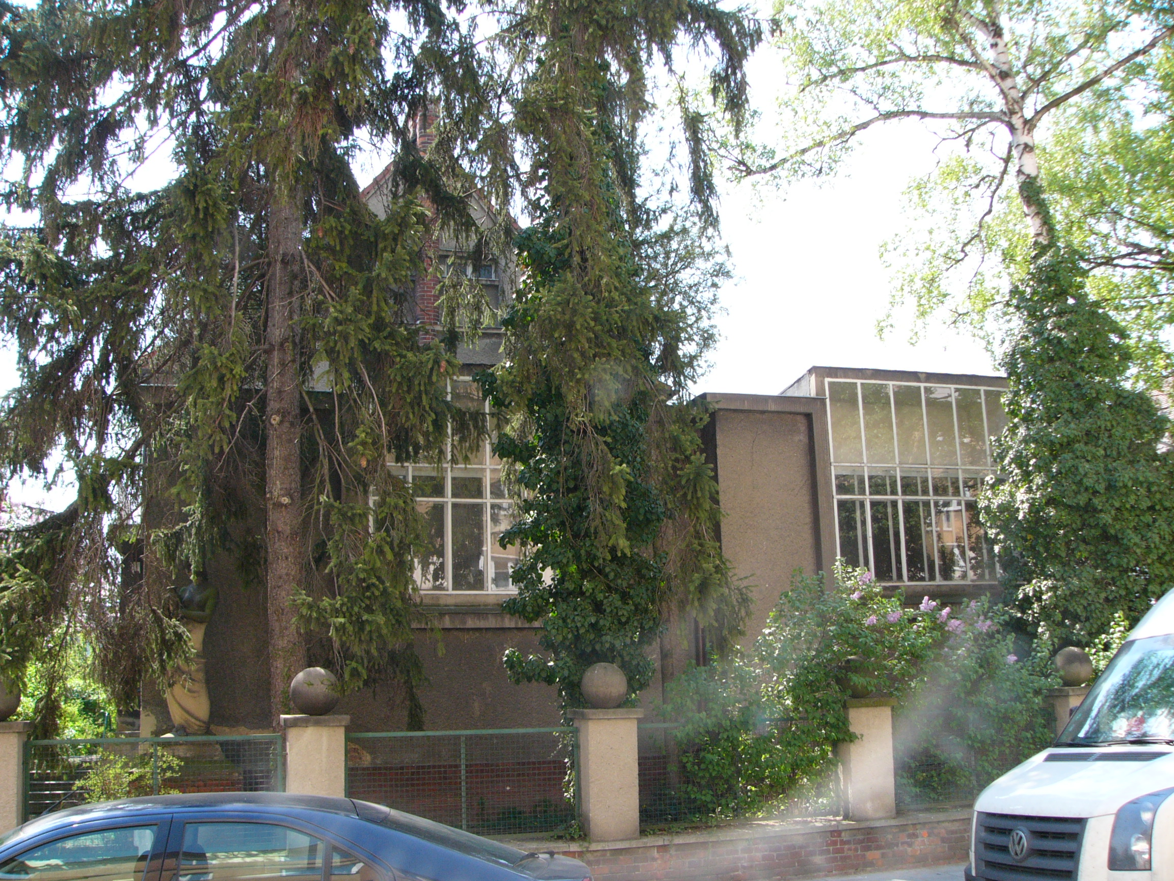 Vila of Julius Pelikán at Na vozovce street in Olomouc (Czech Republic).